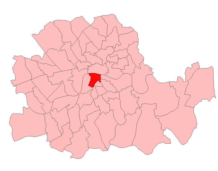 A map of Southwark North constituency within the London County Council area, as it existed from 1918 to 1949.